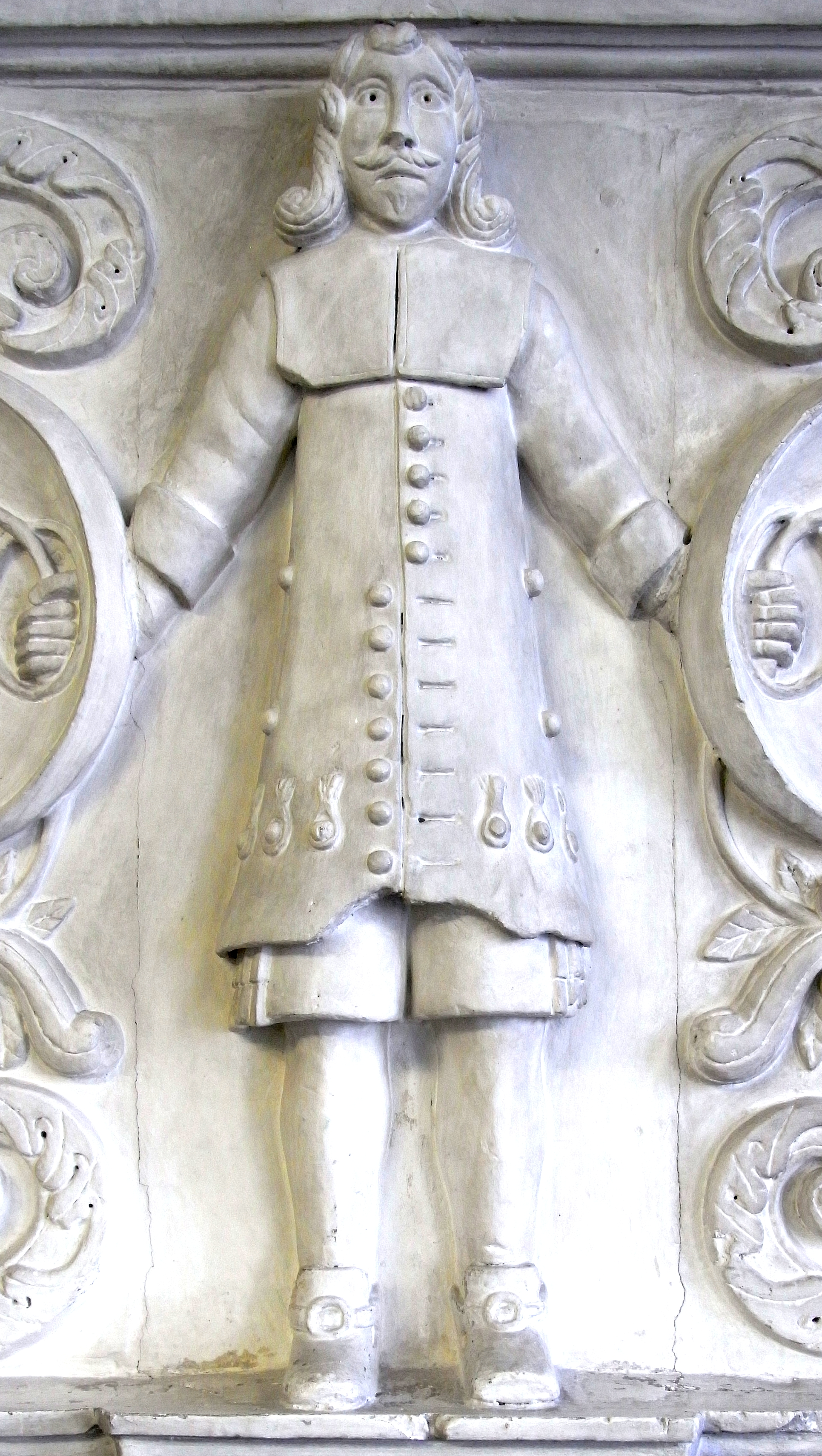 Plaster relief sculpture c.1643 from overmantle, 1st Floor Room, no 8A The Quay, Bideford, Devon. Popularly supposed to be of Sir Bevil Grenville (1596-1643) of Bideford, Devon and Stowe, Kilkhampton, Cornwall. On either side of the figure within strapwork surrounds are escutcheons bearing the Grenville arms of Three clarions. (William Henry Rogers, ‘Notes on Bideford’, 1935, page 77,: “In the Board Room of the Gas Company’s office is a plaster mantelpiece and frieze. In the centre is a full-length figure of Sir Bevil GRENVILLE with the GRENVILLE arms on either side. This mantelpiece was discovered when the house, then the Three Tuns Tavern was dismantled and re-edified by the Gas Company. The house was Sir Bevil’s Town House, and was known as ‘New Place’ to distinguish it from ‘Old Place’, the original manor house at the west end of the Bridge.”) It has more recently (c.2012) been dated to post 1660, and may therefore have come from the demolished Stowe House, Kilkhampton, Cornwall built by Sir Bevil's son Sir John Grenville, 1st Earl of Bath (1628-1701): "Examined by Peter Hood (a leading authority on the English Civil War, historical consultant to Bideford 500 Heritage Group, and mastermind behind Torrington 1646...who stated that the coat which the man on the overmantle is wearing is called a ‘Dutchcoat’. They originated from the Netherlands before the Civil War but were originally much shorter, almost like a waistcoat. It was only after the Restoration that a new design emerged of a much longer three-quarter length. This is known as the ‘Jacobean Dutchcoat’, and is what we see the figure wearing in this overmantle. The shoes depicted here, are also of a fashion from a period later than 1660".([1]